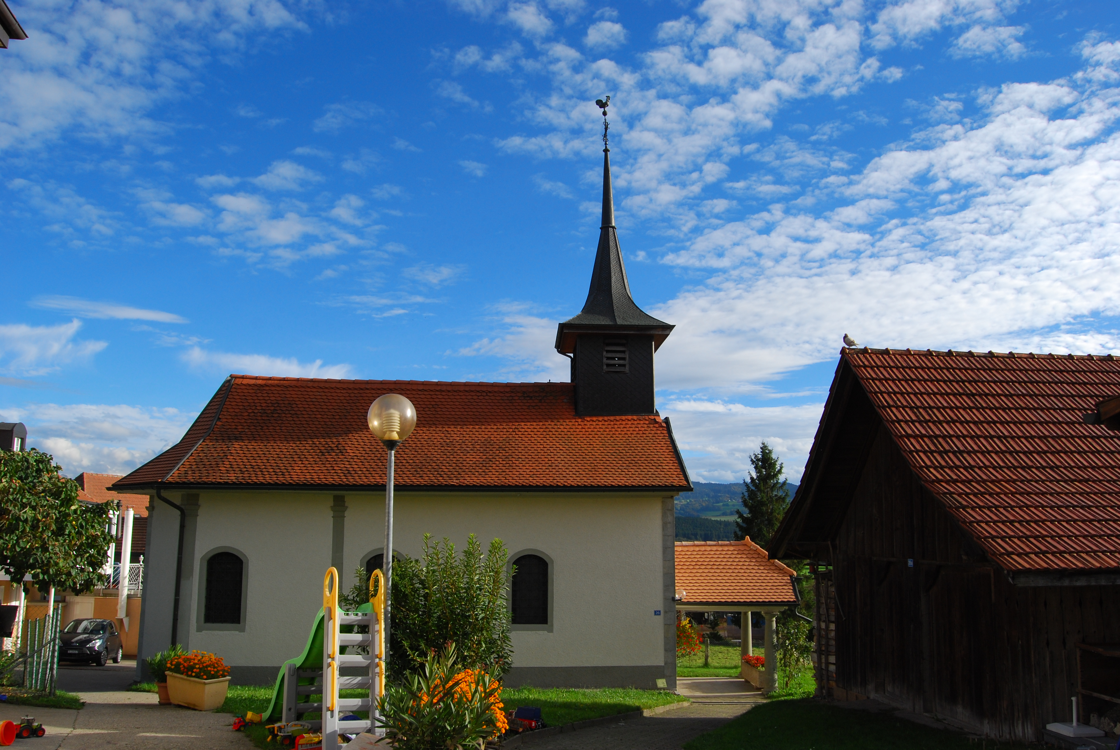 Chapel of Chénens, canton of Fribourg, Switzerland